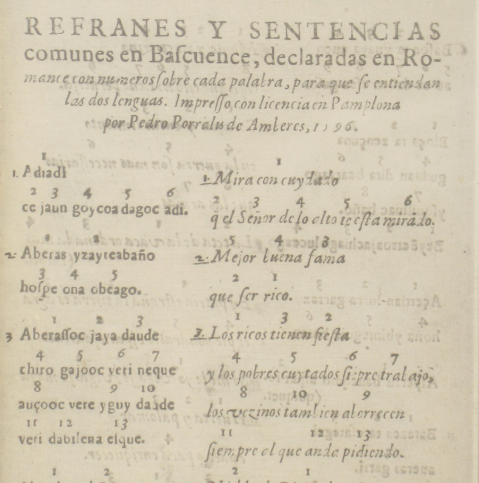 Basque proverb book from 1596. Front page. Only copy was lost in WW2, but previous photos were saved.